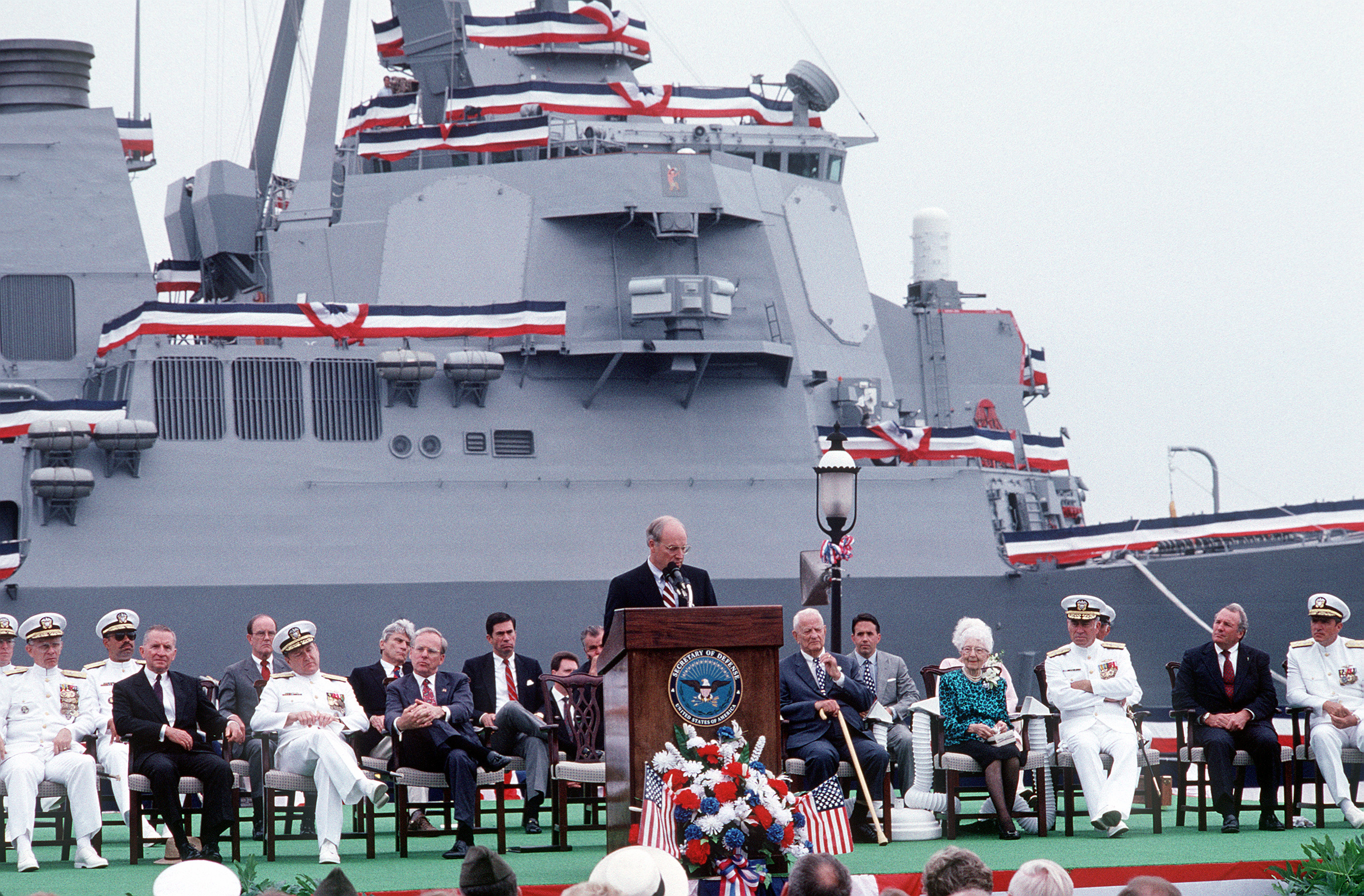 Secretary of Defense Dick Cheney delivers the keynote address during the commissioning ceremony for the guided missile destroyer USS ARLEIGH BURKE (DDG-51), one of the few ships named after a living person. (Burke is third from the right)